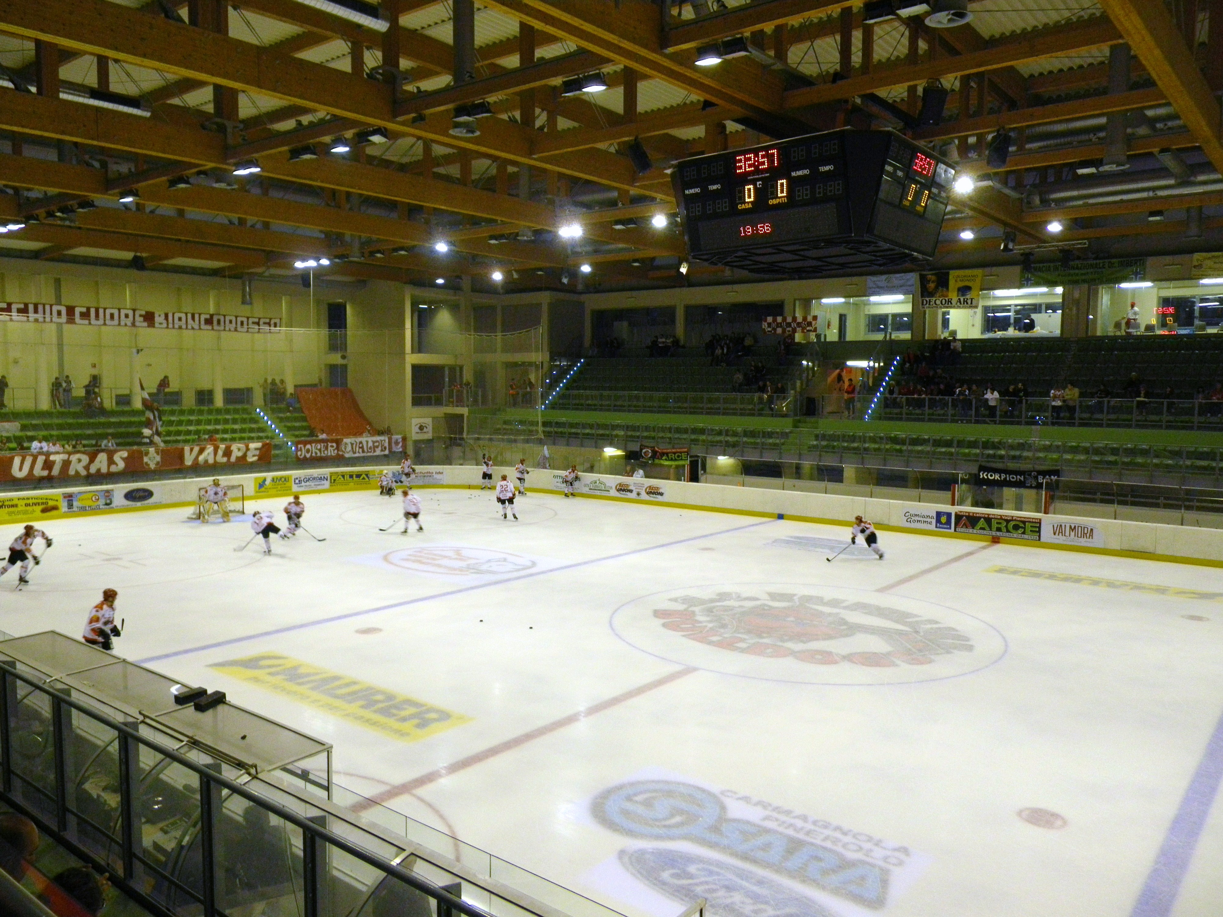 Ice rink Giorgio Cotta Morandini in Torre Pellice